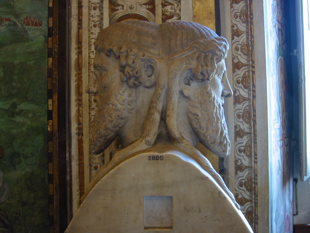 Bust of Janus, Vatican Museum